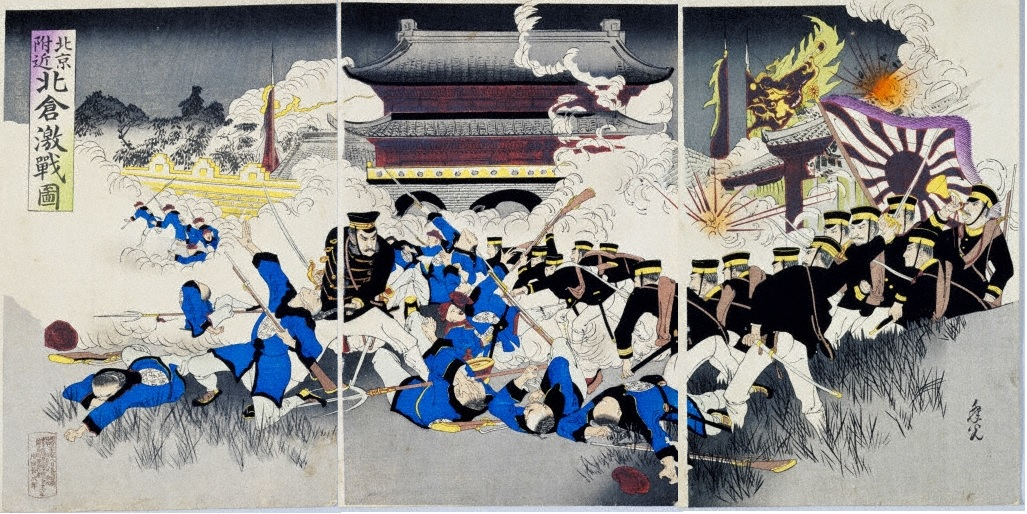 Nishiki-e of the Boxer Rebellion, battle near Beijing, Woodblock print; ink and color on paper